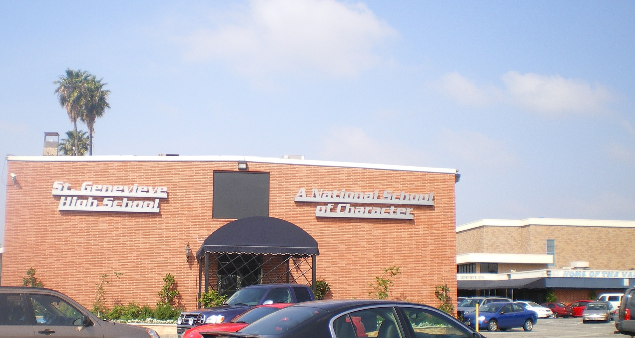 St. Genevieve High School — located in the Panorama City community of the San Fernando Valley, in Los Angeles, California.